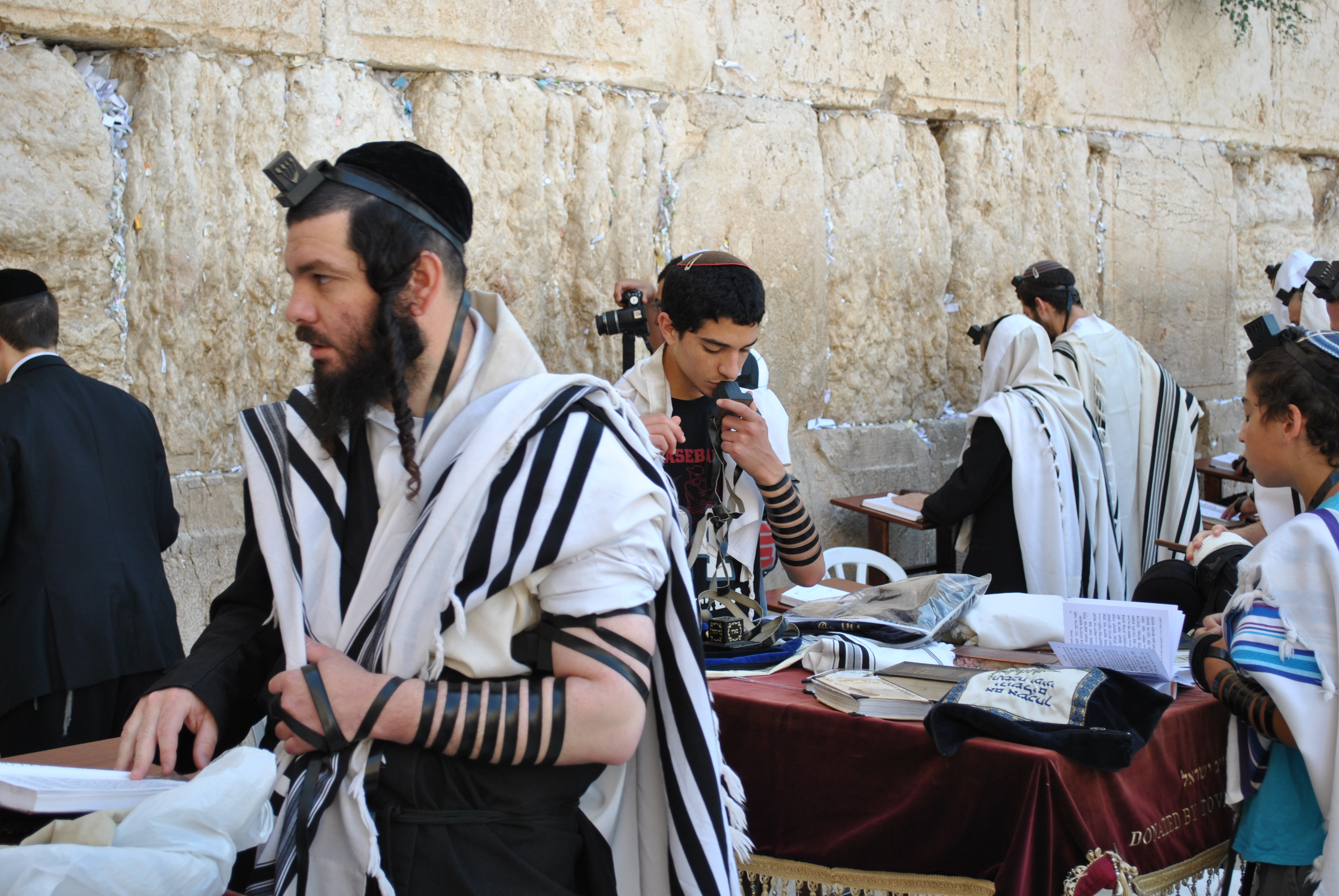 Western wall, Jerusalem, Israel